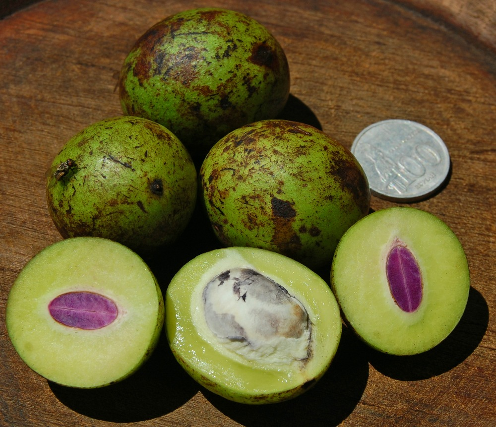 Bouea macrophylla, fruits. From Darmaga, Bogor, West Java, Indonesia